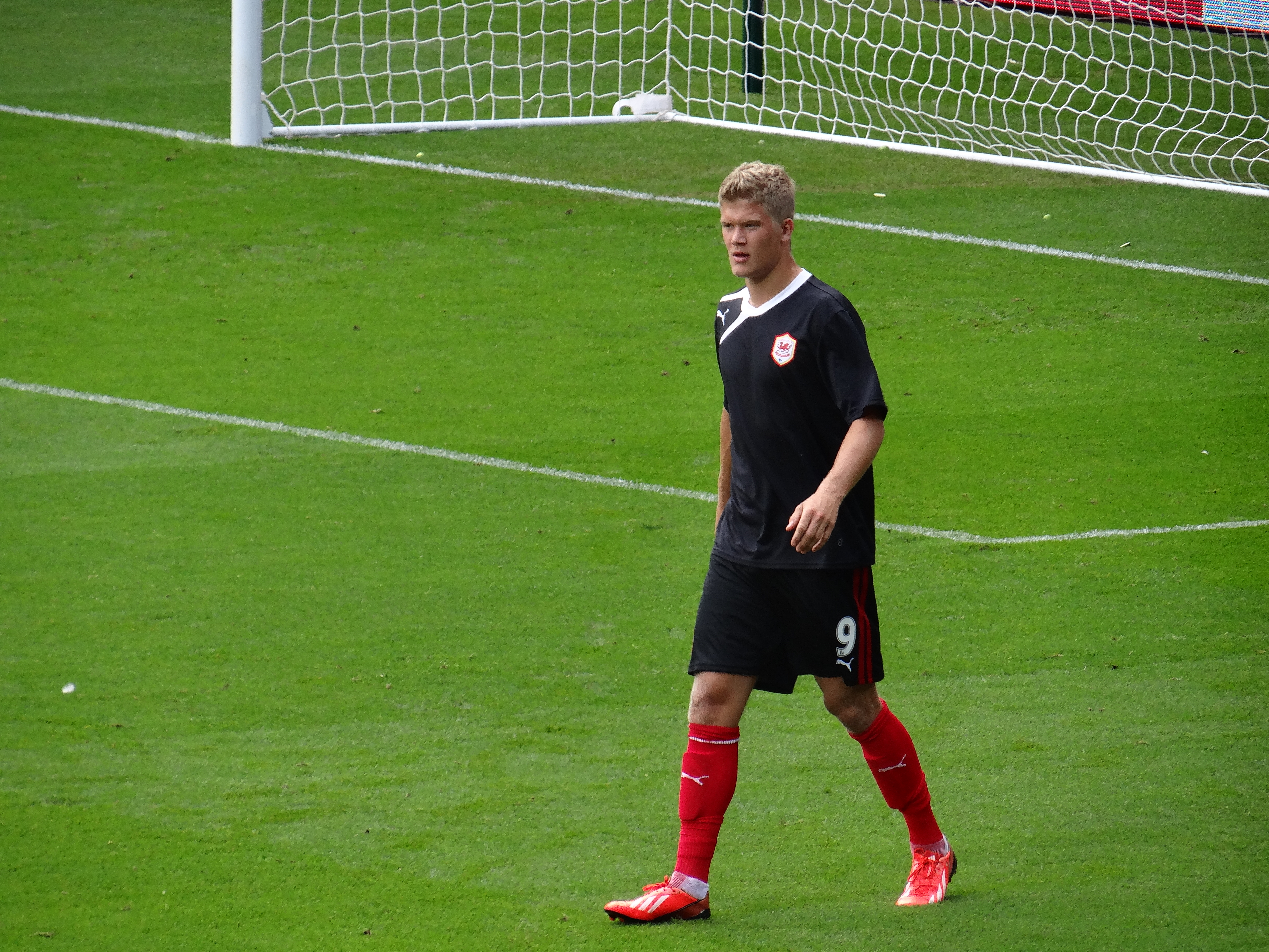 Andreas Cornelius warming up for Cardiff City before a match against Manchester City on 25 August 2013.